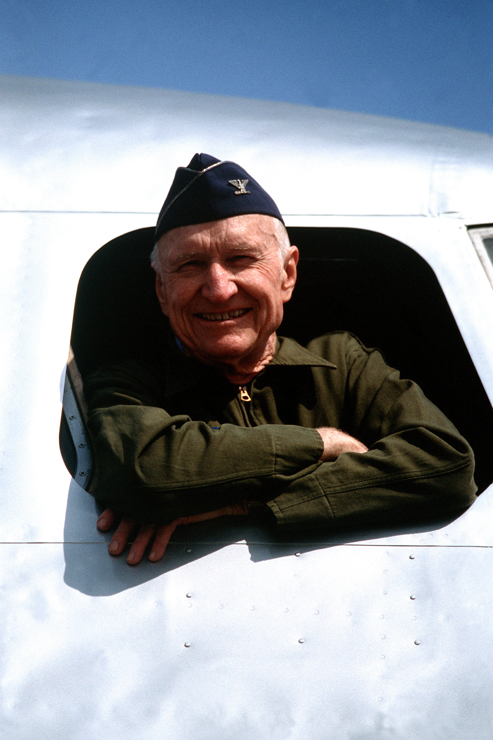 Colonel Gail S. Halvorsen leans out the window of a C-54 Skymaster aircraft on static display at Tempelhof Central Airport during ceremonies commemorating the 40th anniversary of the airlift which ended the Soviet blockade of BERLIN. Halvorsen was known as the candy bomber during the blockade, because of his practice of dropping candy for the children out of his plane.